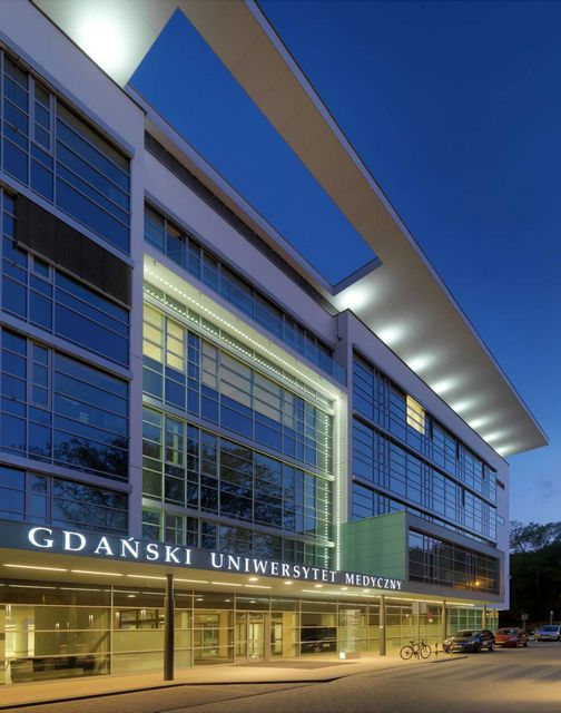 Uniwersytecki Szpital Kliniczny Gdansk